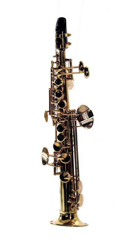 Photo of an Eppelsheim Soprillo Saxophone (ca. 2000).